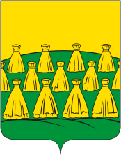 Gdov (Pskov oblast), coat of arms